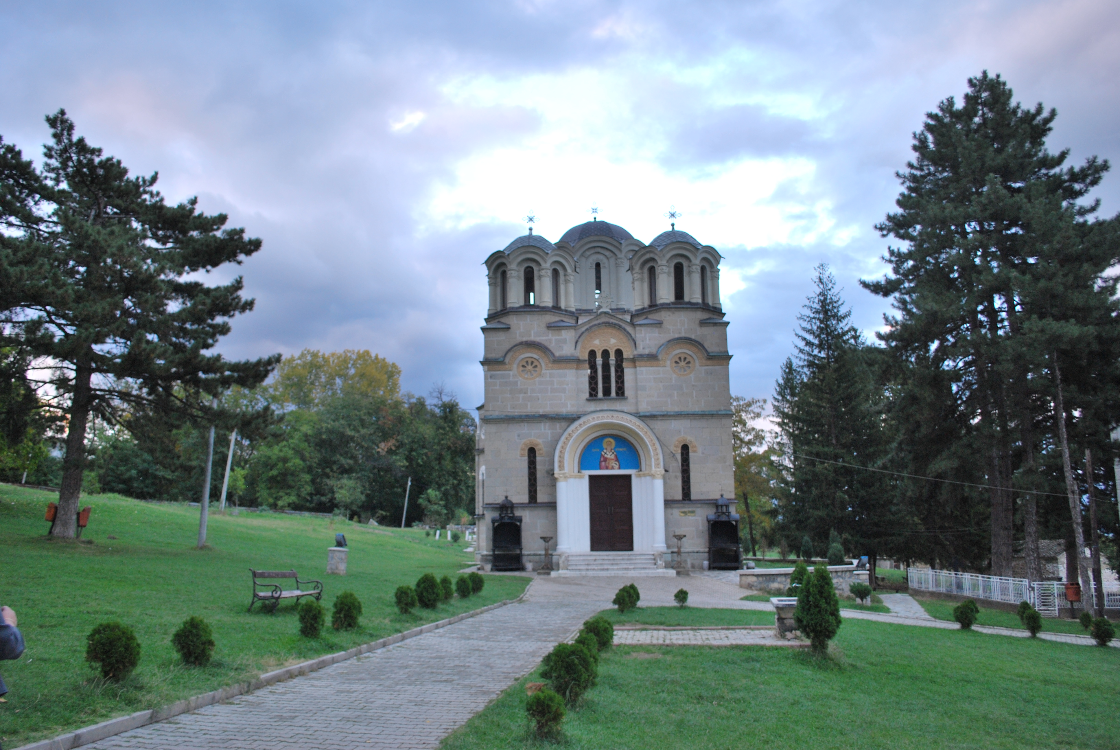 Lešok Monastery, Macedonia This image is uploaded as part of the picture contest Wiki Loves Cultural Heritage in Macedonia 2013. English | македонски | +/−